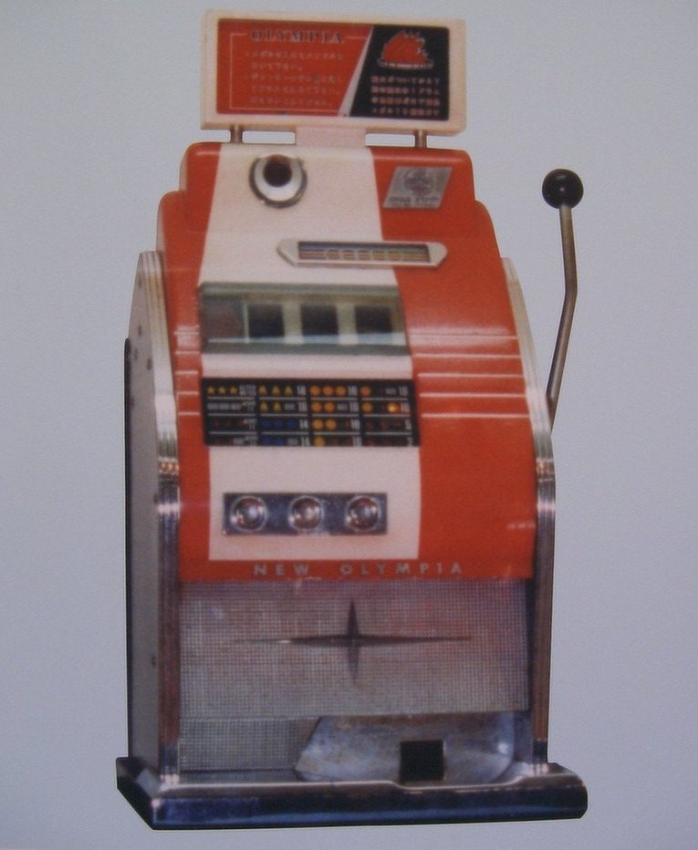 New olimpia displayed at PACHINKO-PACHISURO FAIR 02.